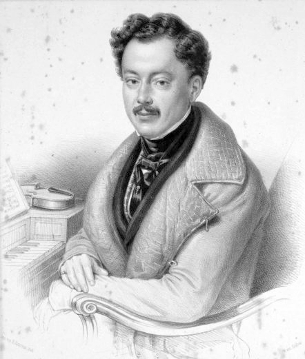 Violinist and composer Léon de Saint-Lubin (1805-1850).